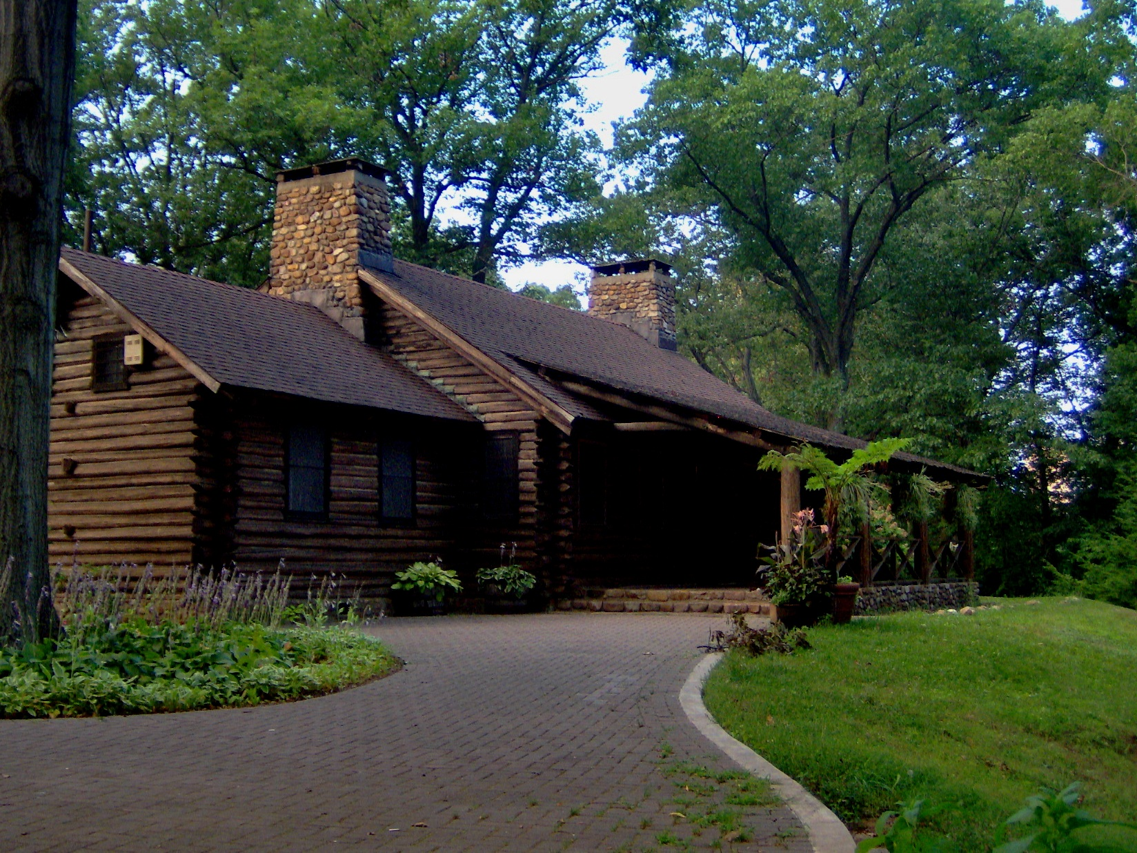 Rutgers University's Log Cabin